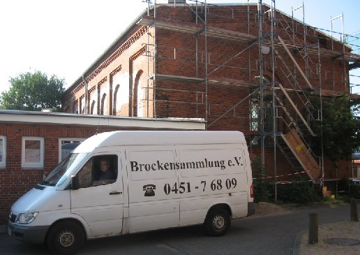 Brockensammlung Luebeck